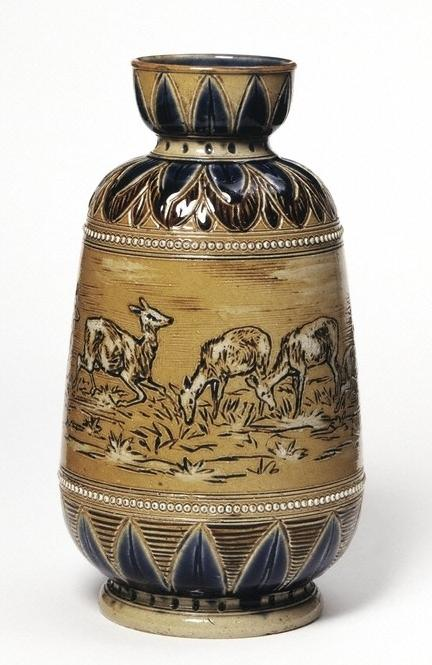 Vase, 1874, Doulton Ceramic Factory V&A Museum no. 352-1874 Techniques - Salt-glazed stoneware with incised decoration Artist/designer - Doulton Ceramic Factory, Hannah Barlow, born 1851 - died 1916 (decorator), Miss Middlemiss (probably assistant) Place - Lambeth, England Dimensions - Height 22.3 cm, Width 12.4 cm Object Type - Doulton's commercial production was of salt-glazed utilitarian wares, which were strong and waterproof. Their art ware production, begun in the early 1860s, capitalised on this technical expertise. The artwares, such as this vase, were made on the back of the utilitarian ware using the same material but more decoratively. Doulton was among the first to rediscover the qualities which made stoneware appropriate for art wares. Although perfectly functional as a water-container, stoneware's strength and ability to retain a crisp decorative outline recommended it to collectors in Britain and abroad. People - Hannah Barlow was one of a family of decorators. She studied at Lambeth School of Art and joined Doulton's art studio nearby in 1871, her brother Arthur and sisters Florence and Lucy joining her thereafter. She was the first female artist to work there. She specialised in incised decoration of countryside subjects of farmhands, and animals in a fresh and natural manner, almost as though she was using the clay as a sketchbook.